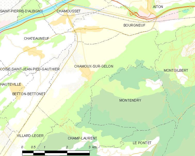 Map of French municipality